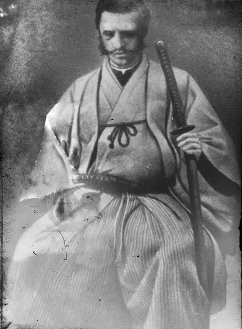 The portrait of John Henry Schnell in samurai outfit.